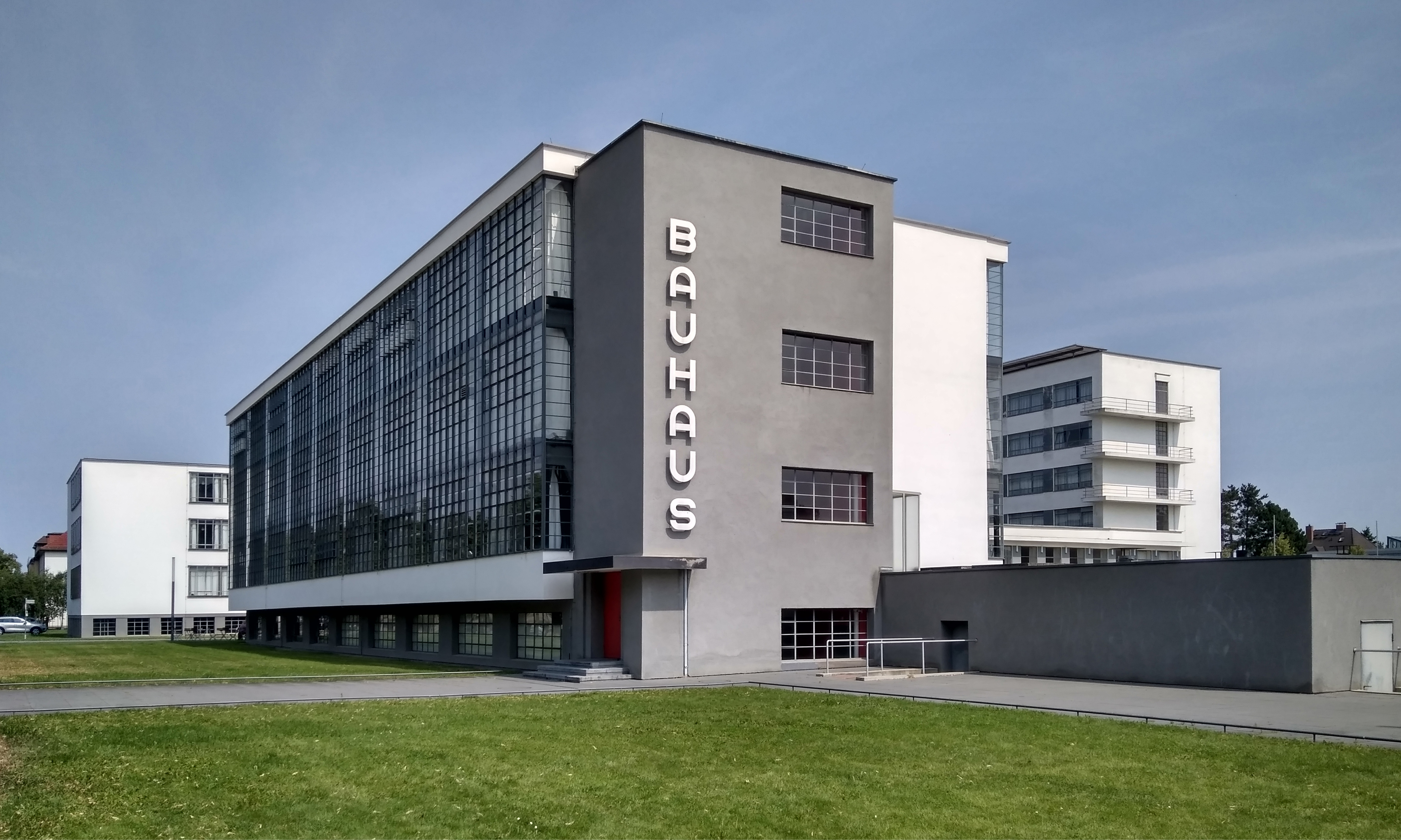 Bauhaus building in Dessau by Walter Gropius. 2018